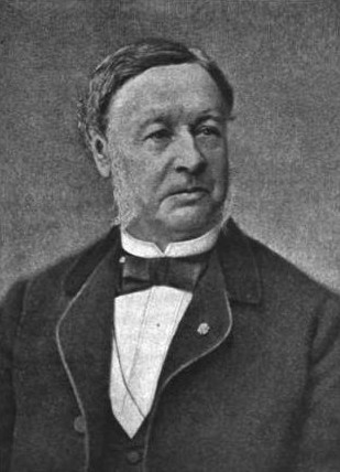 Picture of Theodore Schwann